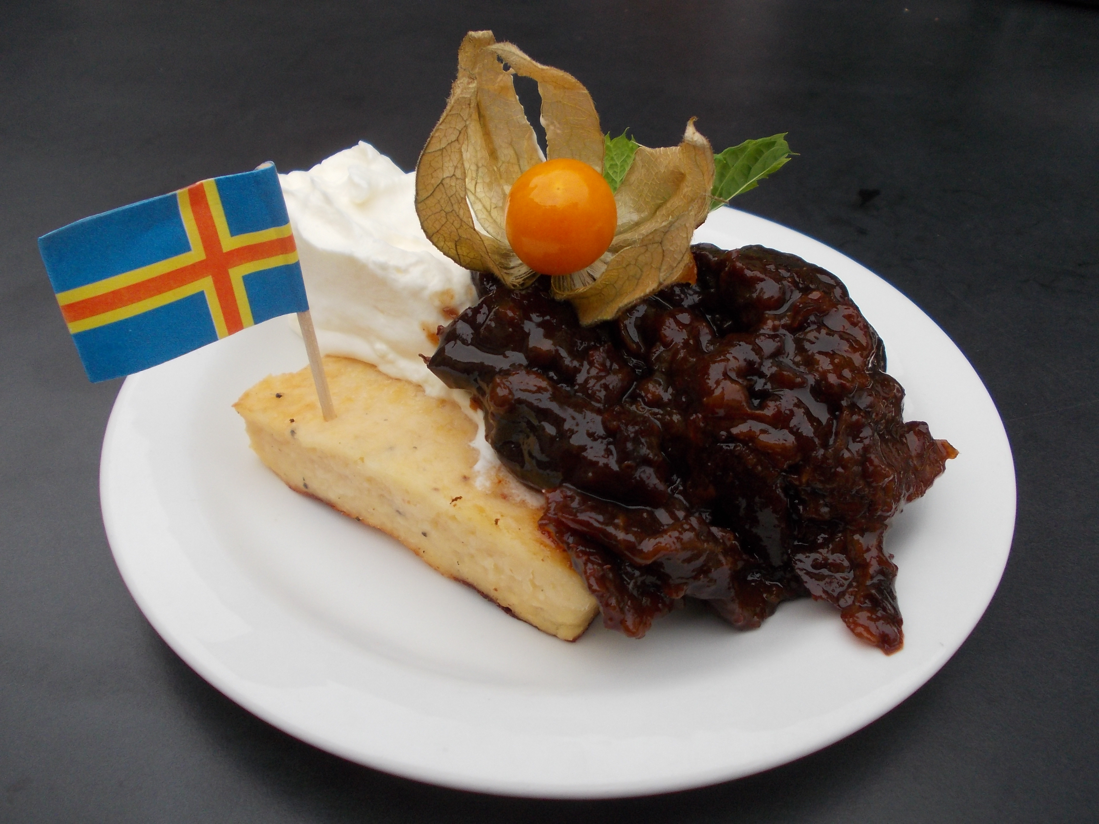 Ahvenanmaan pannukakku (Ålandspannkaka) served with whipped cream and plum jam, topped with a Physalis peruviana and the flag of the autonomous region of Ahvenanmaa.